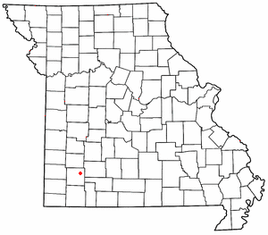 Modified from a map on Wikipedia.